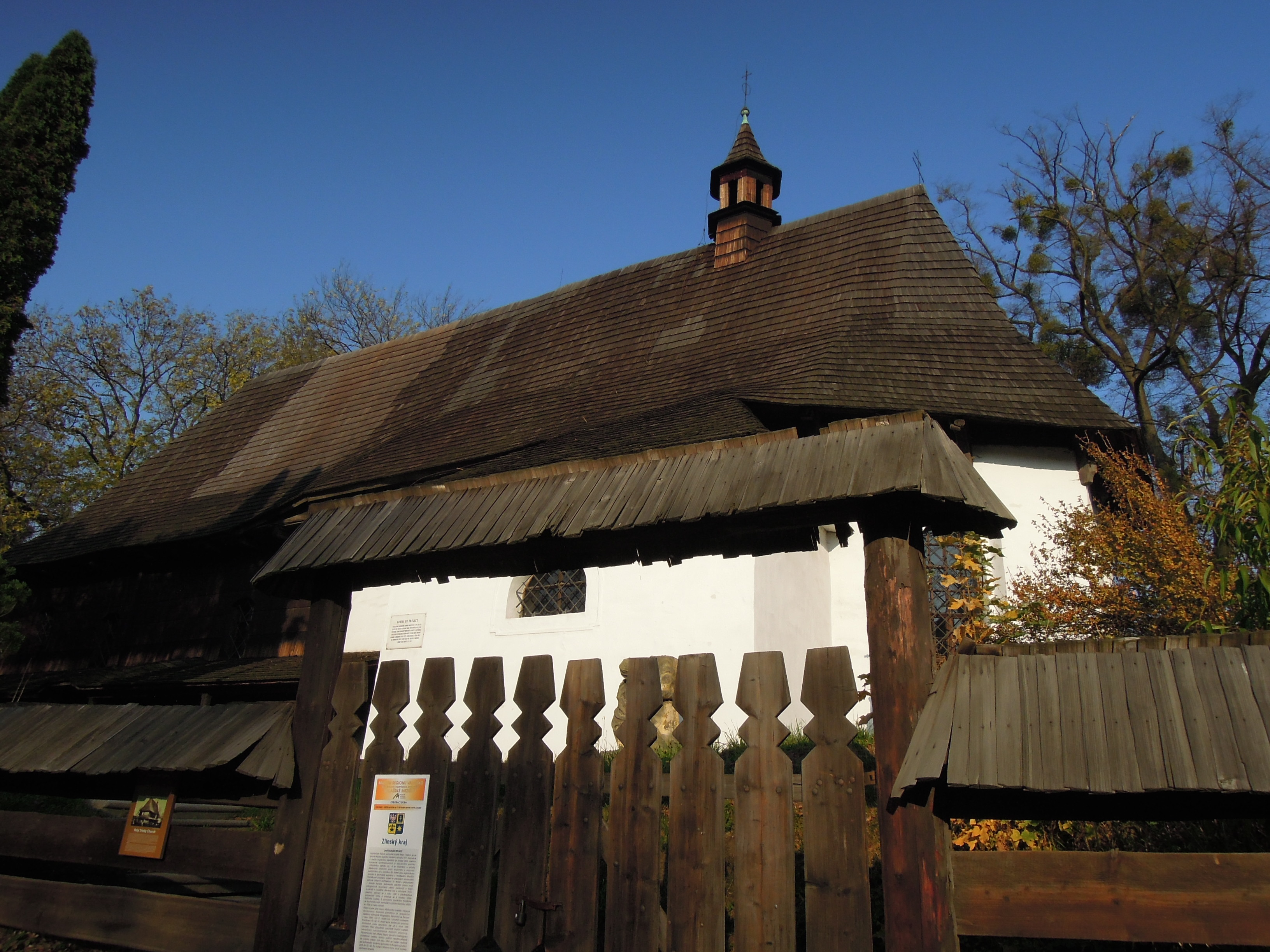 Holy Trinity Church in Valašské Meziříčí, Vsetín District, Zlín Region, Czech Republic